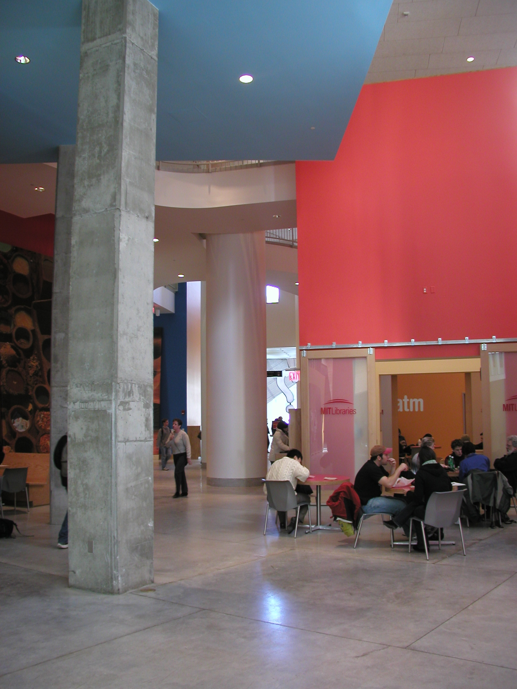 You are never too far from a cup of coffee in the Stata Center, MIT.